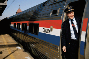 Train conductor leaning out of an Amtrak train at Wilmington, Delaware in 2006